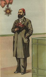 Caricature of Ahmed Arabi (1841-1911). Caption read "Ahmed Arabi the Egyptian".